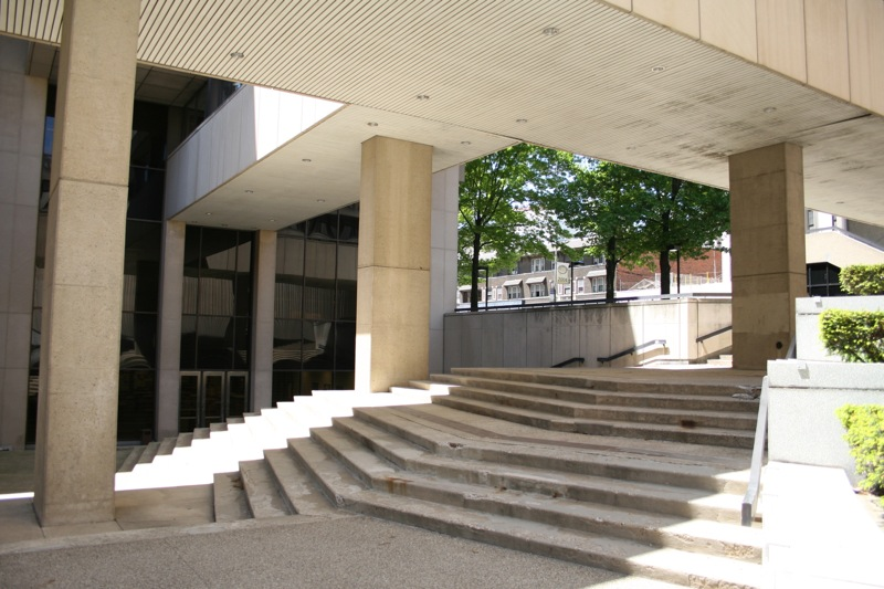 Barco Law Building, University of Pittsburgh Law School